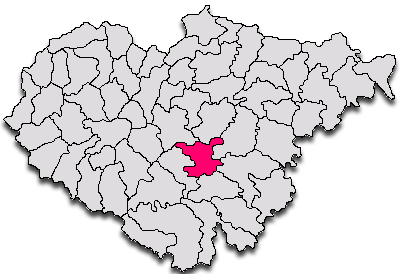 Agrij location in Sălaj County